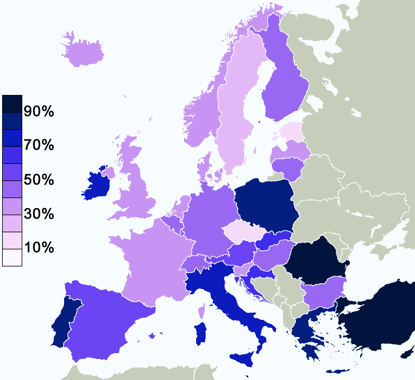 This map shows the result of an Eurobarometer poll conducted in 2005. The colors indicated the percentage of people in each country who answered "I believe there is a God" in the interview. The countries marked in grey were not included in the poll. See also Image:Europe-atheism-2005.png for percentage of people who answered "I don't believe there is any sort of spirit, God or life force" in the same poll.